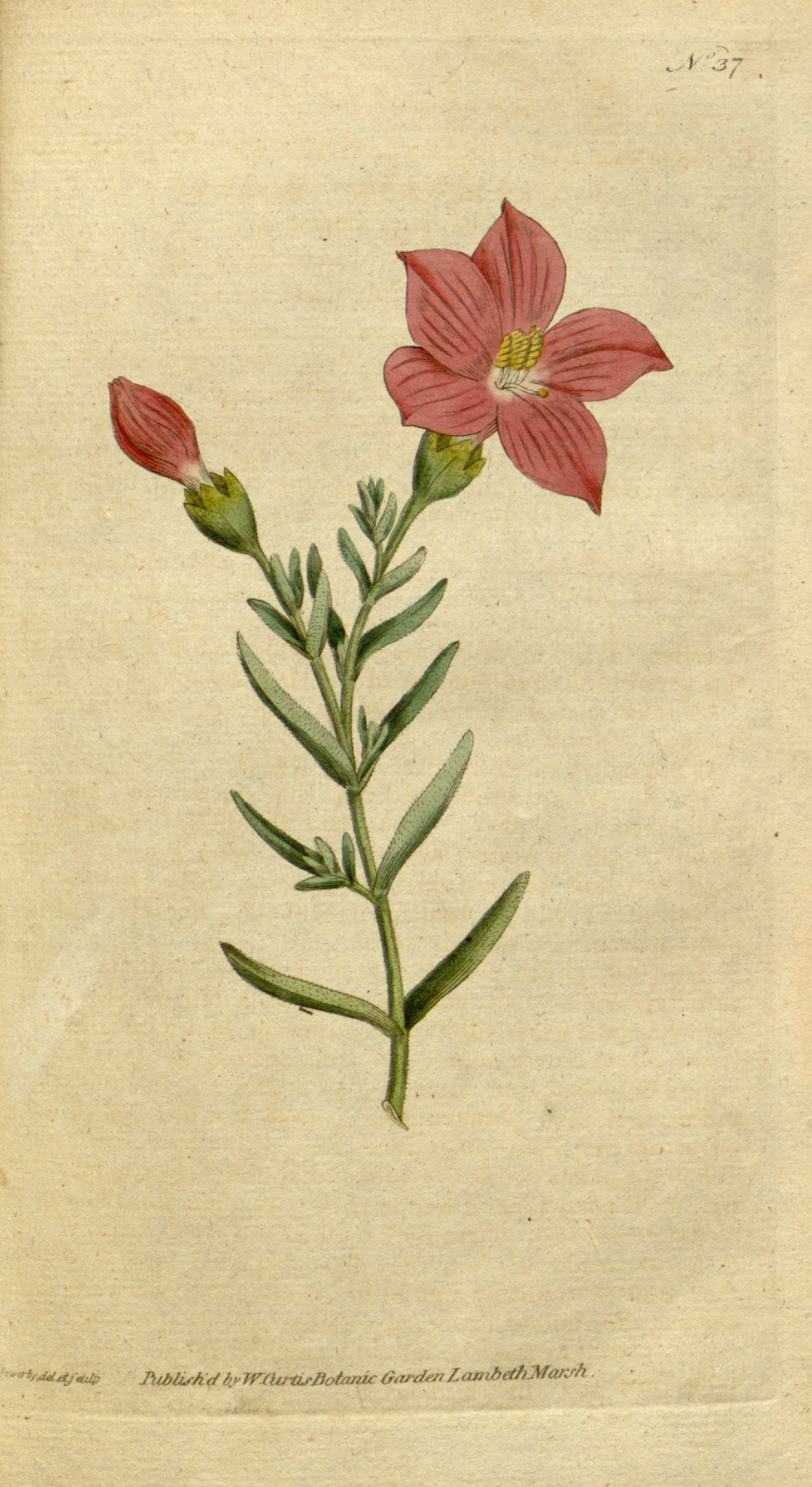 This is Plate 37 from The Botanical Magazine, Volume 2. Chironia frutescens (Orphium frutescens)